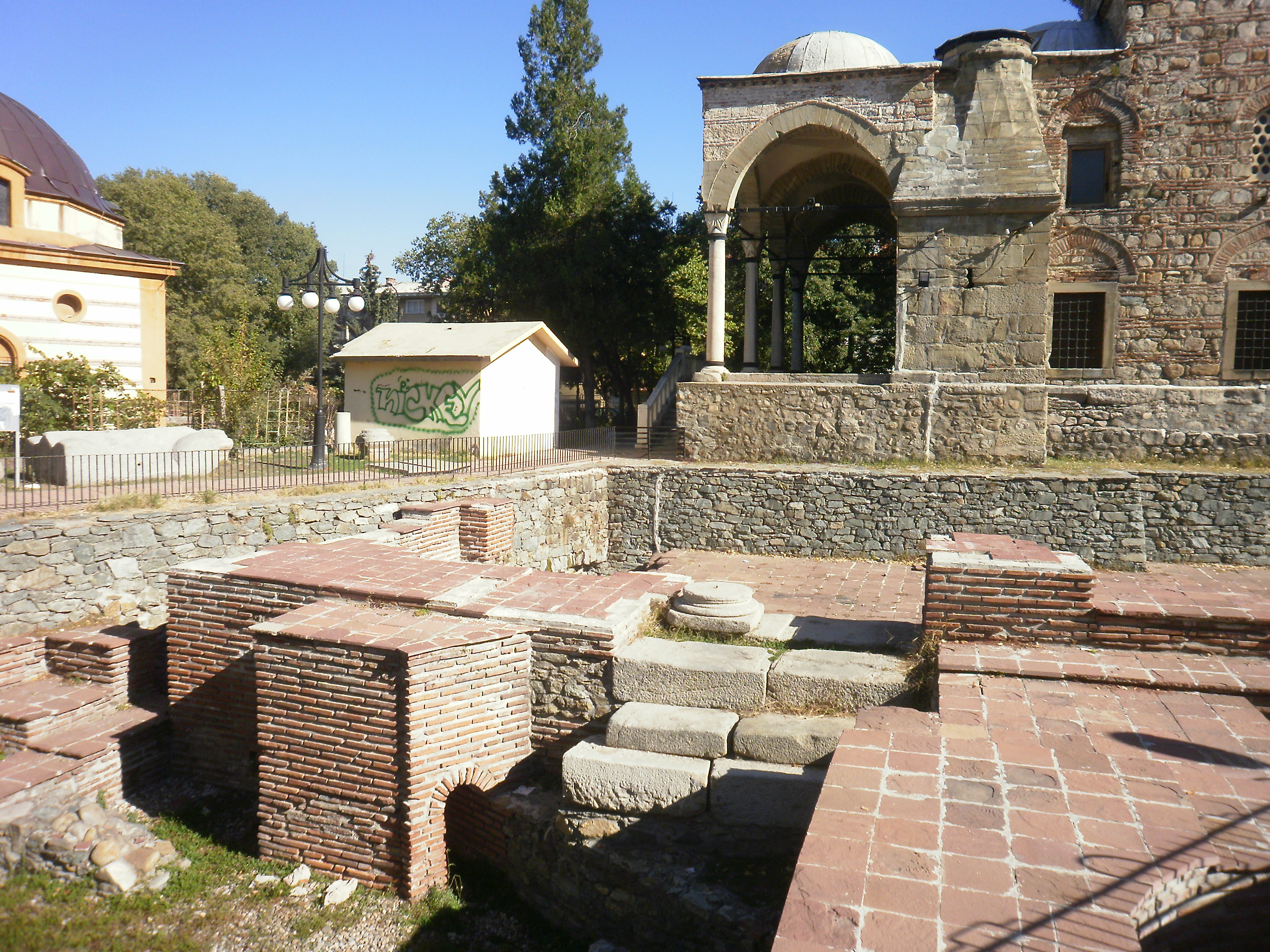 Roman thermae complex in Kyustendil, Bulgaria.